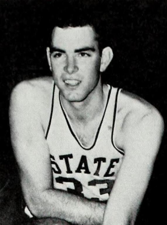 A scanned page from the 1963 edition of Reveille, the yearbook of Mississippi State University